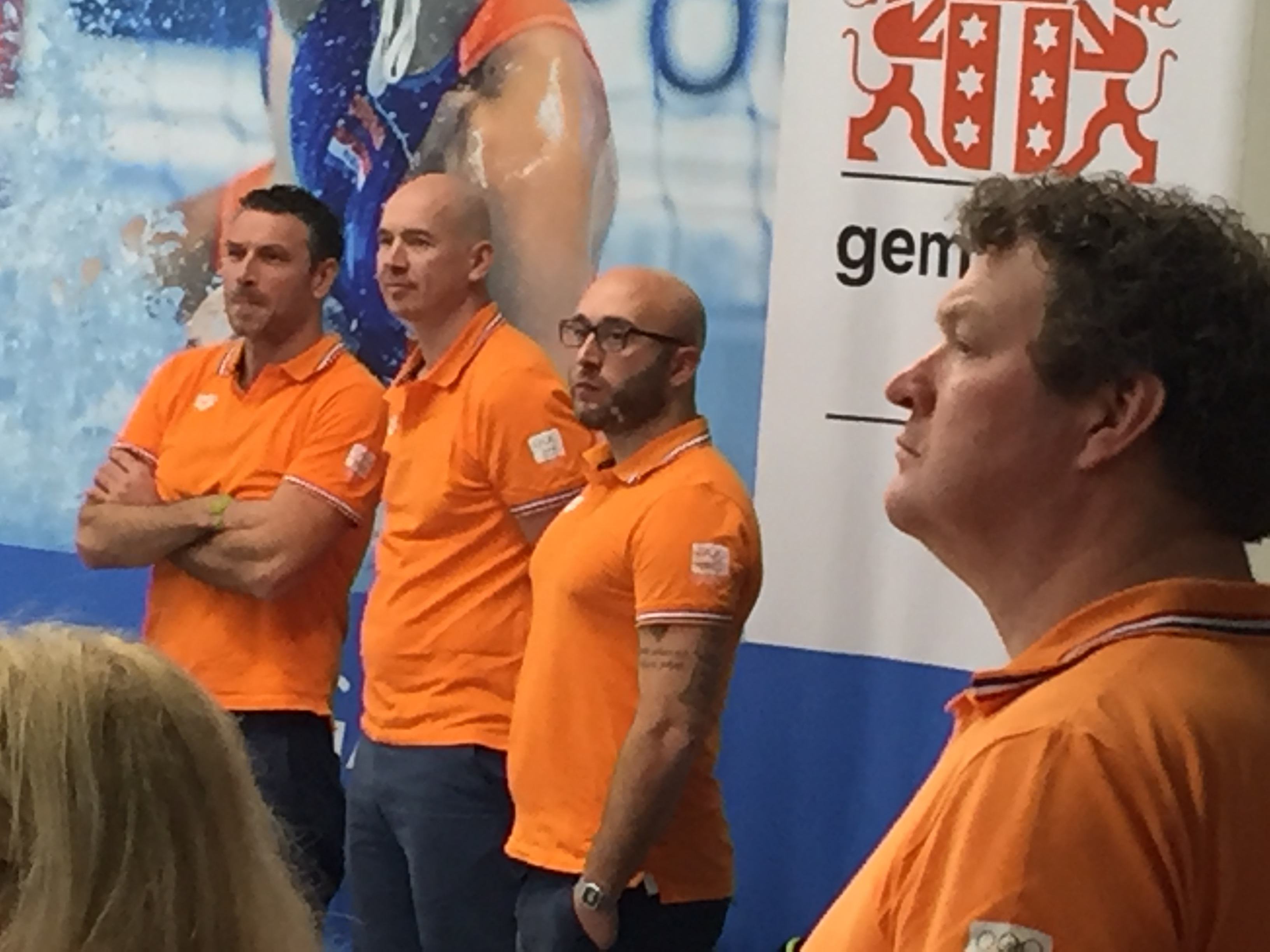 2016 Water Polo Olympic Qialification tournament NED-FRA